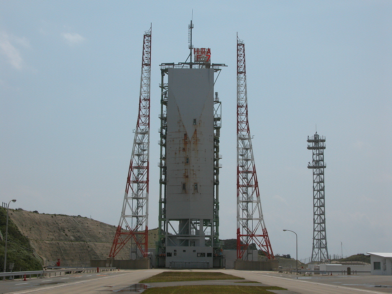 Launch Pad 1, Yoshinobu Launch Complex, Tanegashima Space Center, Japan Aerospace Exploration Agency